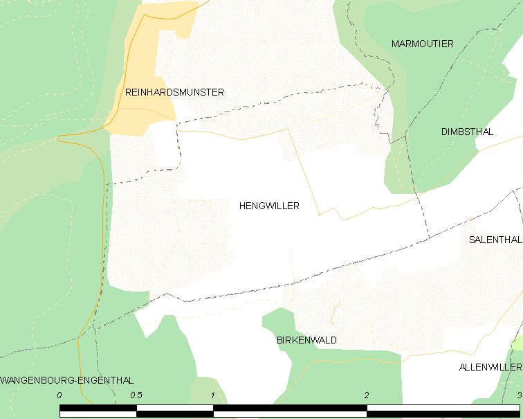 Map of French municipality